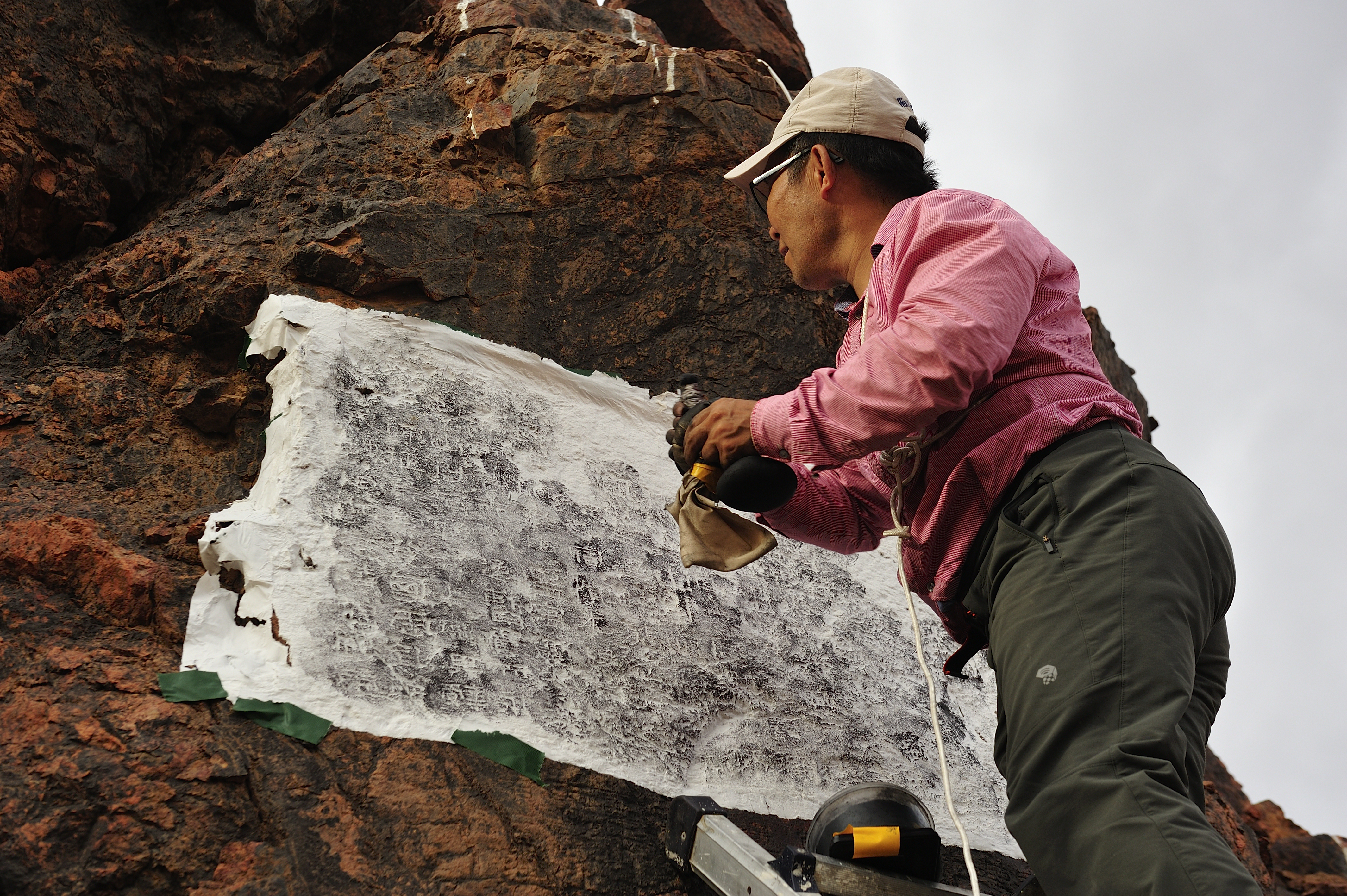 The inscription of the cliff on Baruun ilgen (West visible) hills in south of Delgerkhangai mountain (Dundgovi province)